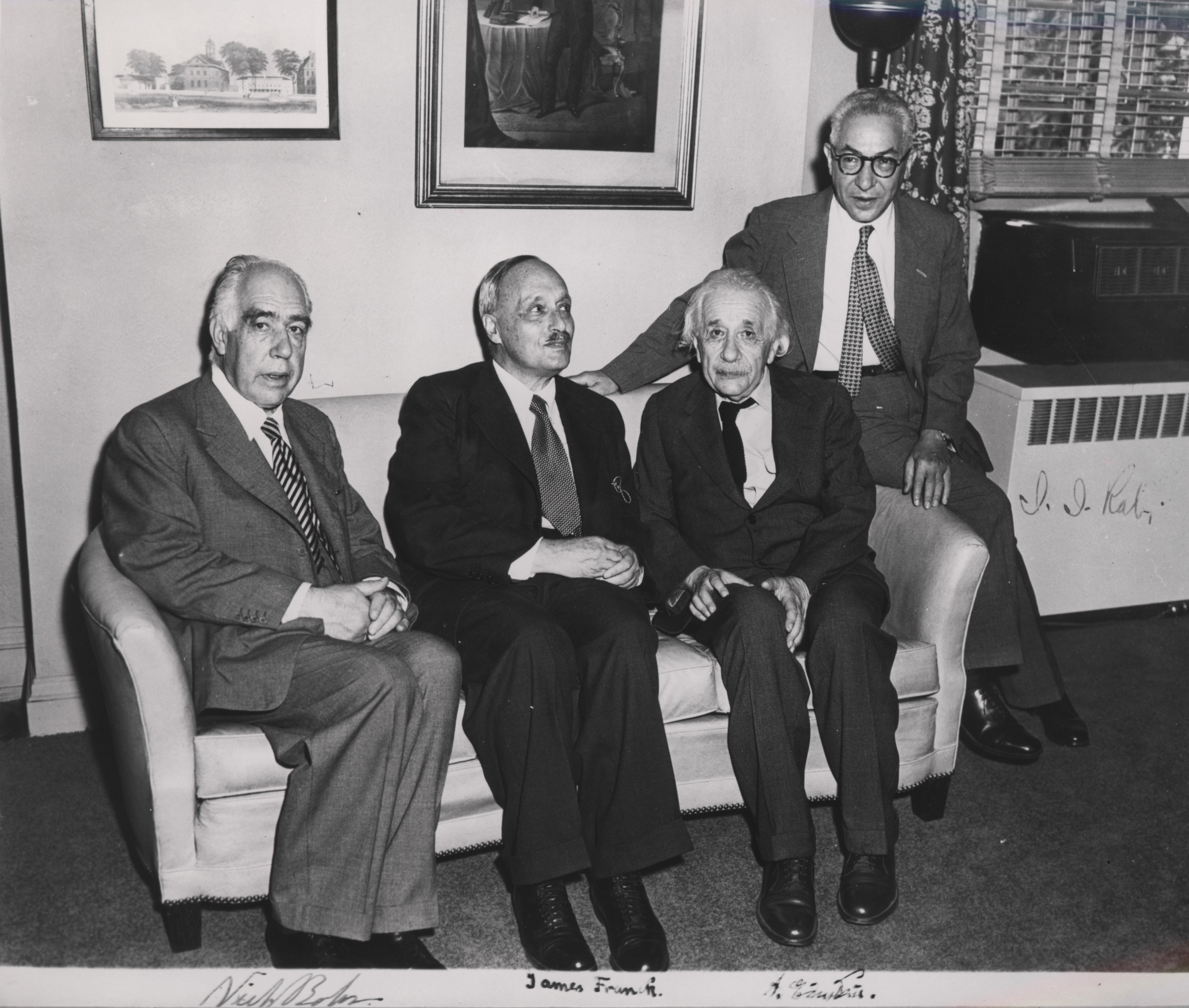 Creator/Photographer: Unidentified photographer Medium: Black and white photographic print Dimensions: 20.7 cm x 25.5 cm Date: October 1954 [1] Persistent URL: [2] Repository: Smithsonian Institution Libraries Collection: Scientific Identity: Portraits from the Dibner Library of the History of Science and Technology - As a supplement to the Dibner Library for the History of Science and Technology's collection of written works by scientists, engineers, natural philosophers, and inventors, the library also has a collection of thousands of portraits of these individuals. The portraits come in a variety of formats: drawings, woodcuts, engravings, paintings, and photographs, all collected by donor Bern Dibner. Presented here are a few photos from the collection, from the late 19th and early 20th century. Accession number: SIL14-E1-09